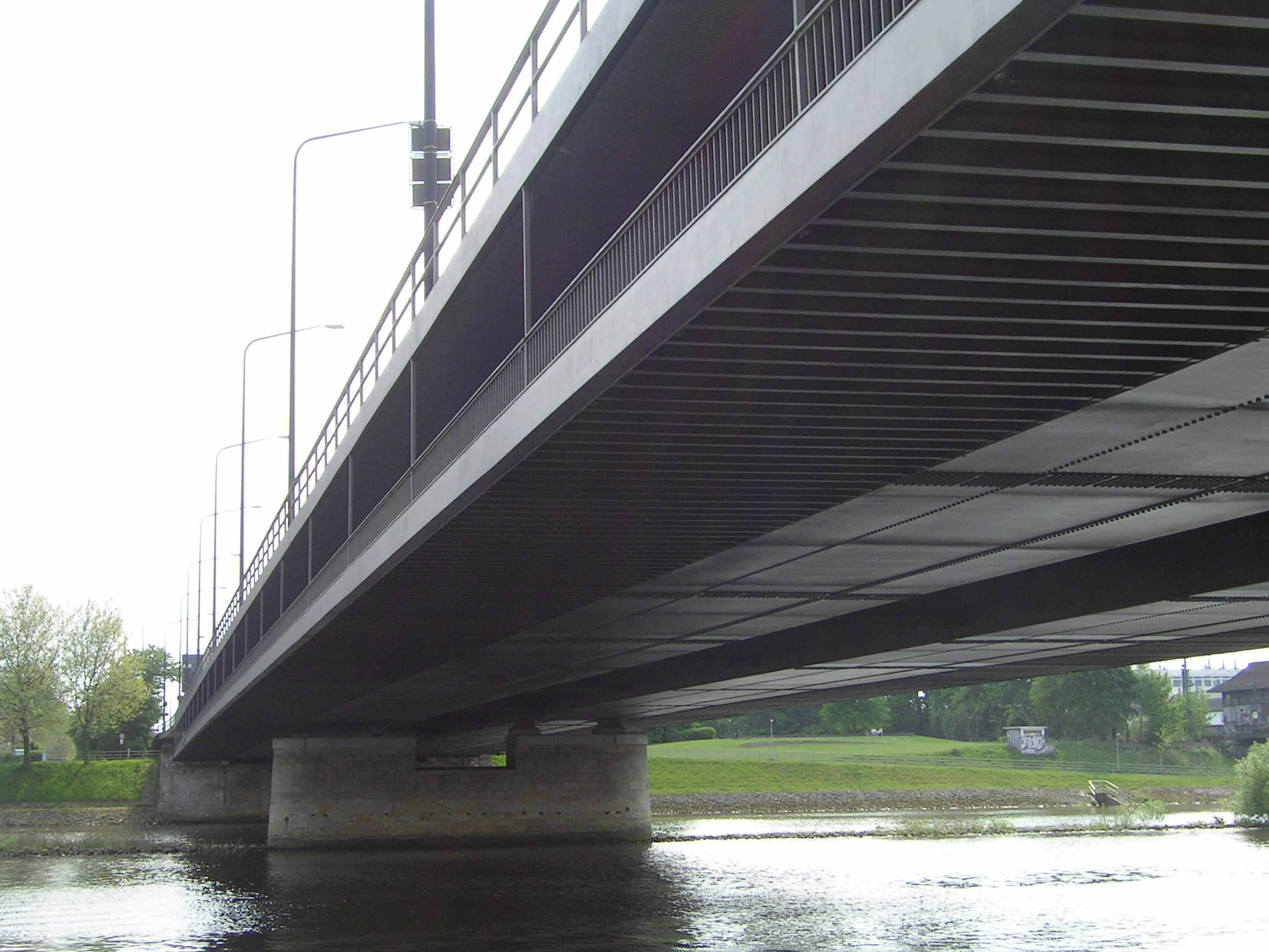 Weser River in Bremen city